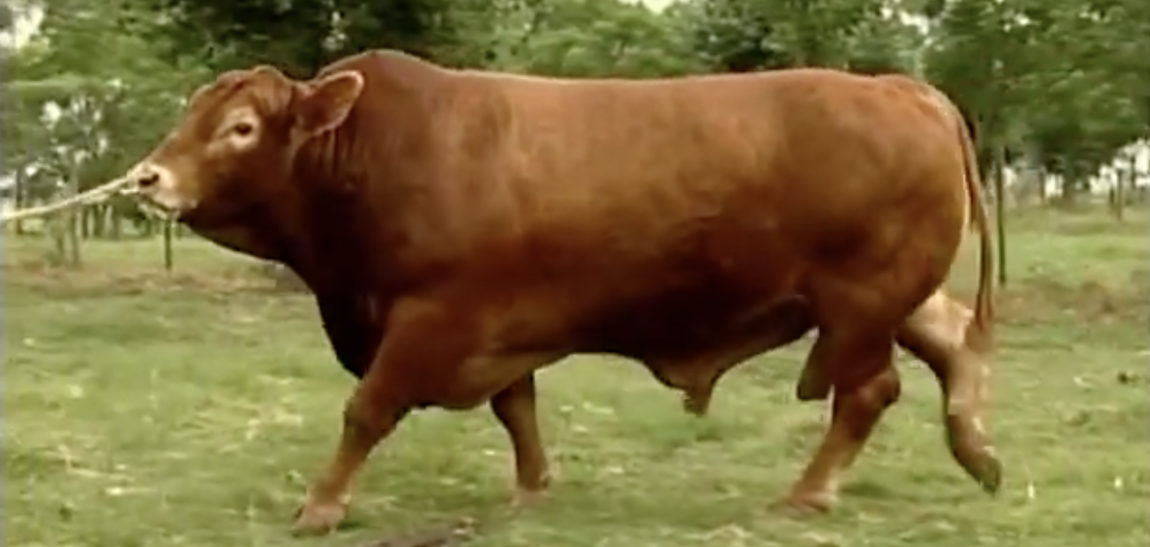 Red Brangus Bull